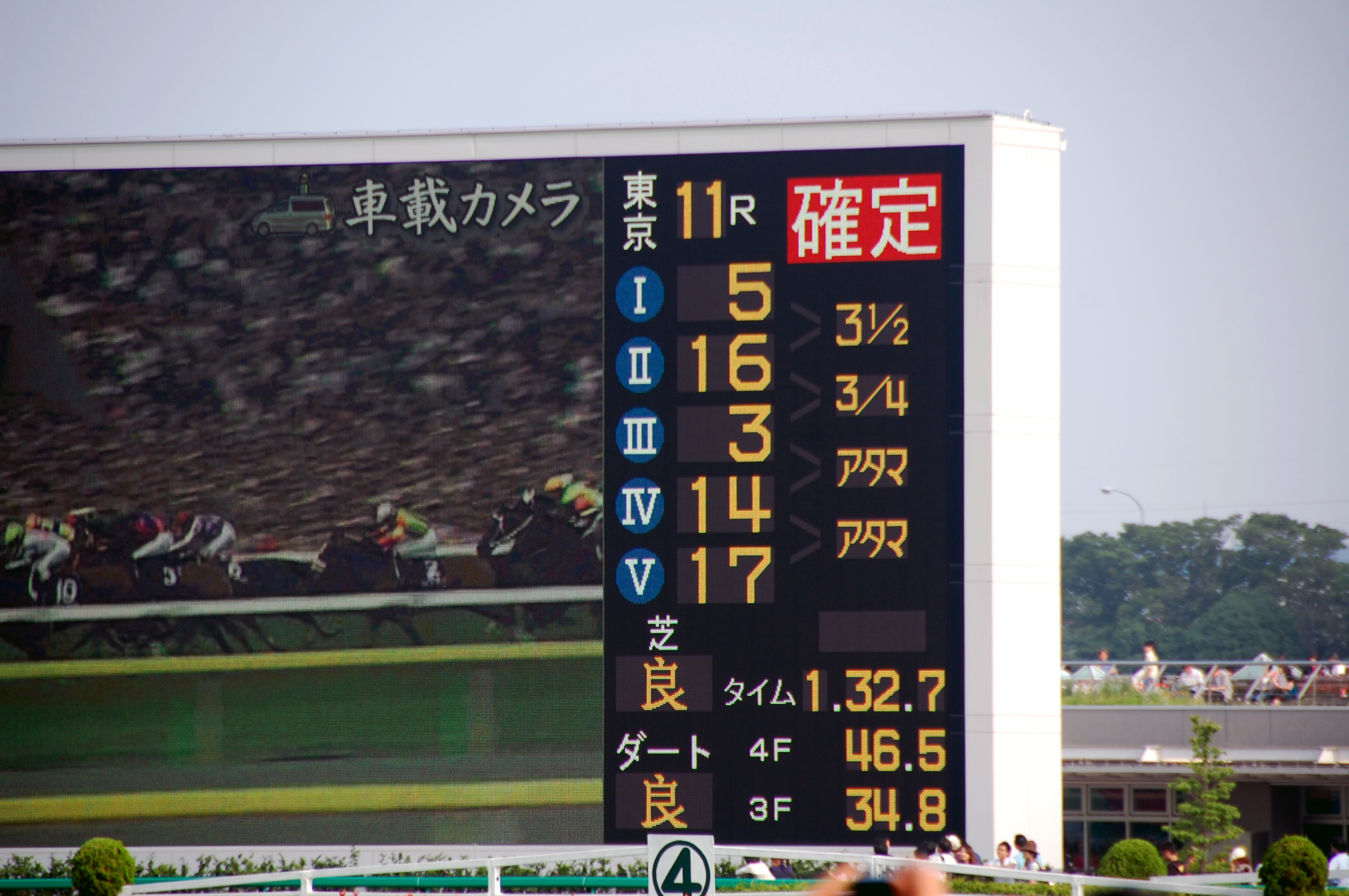 Turf-vision in Tokyo Racecourse